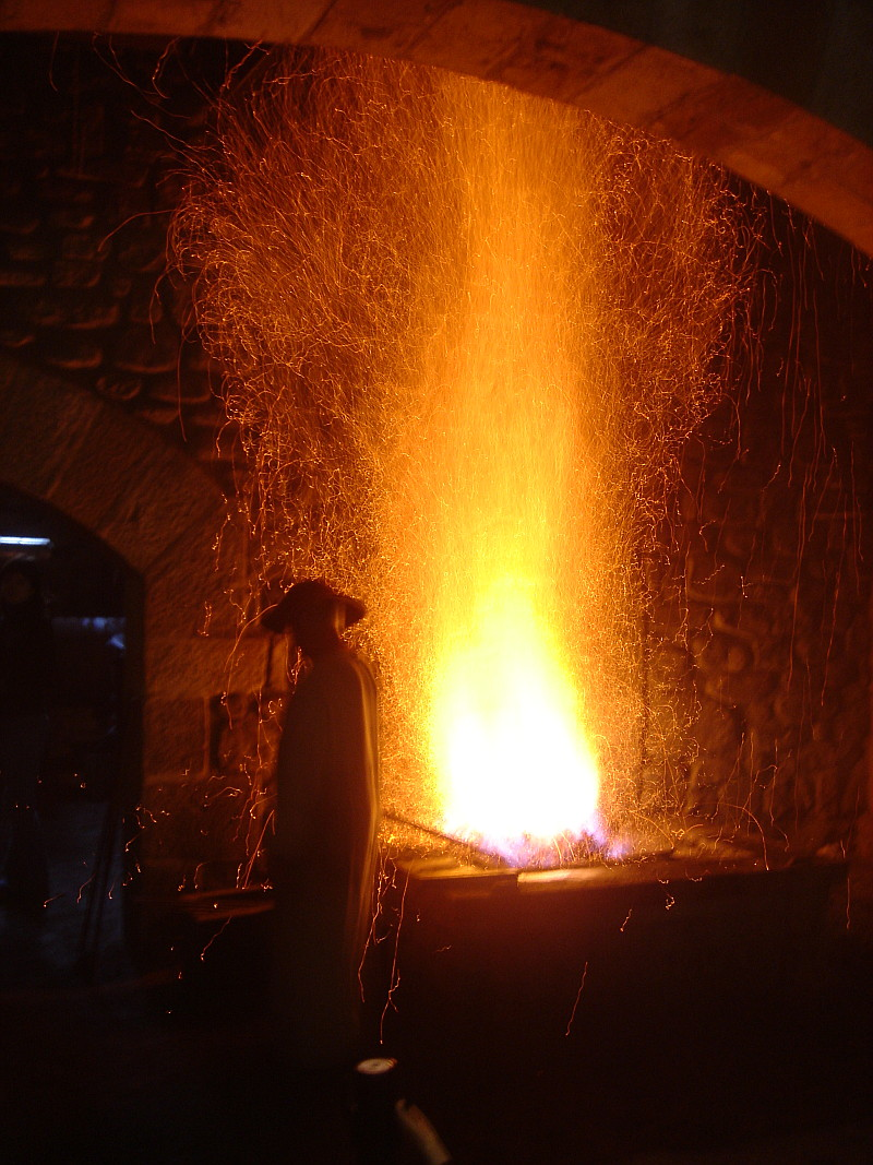 Traditional ironworks in Mirandaola (Legazpi, Basque Country)